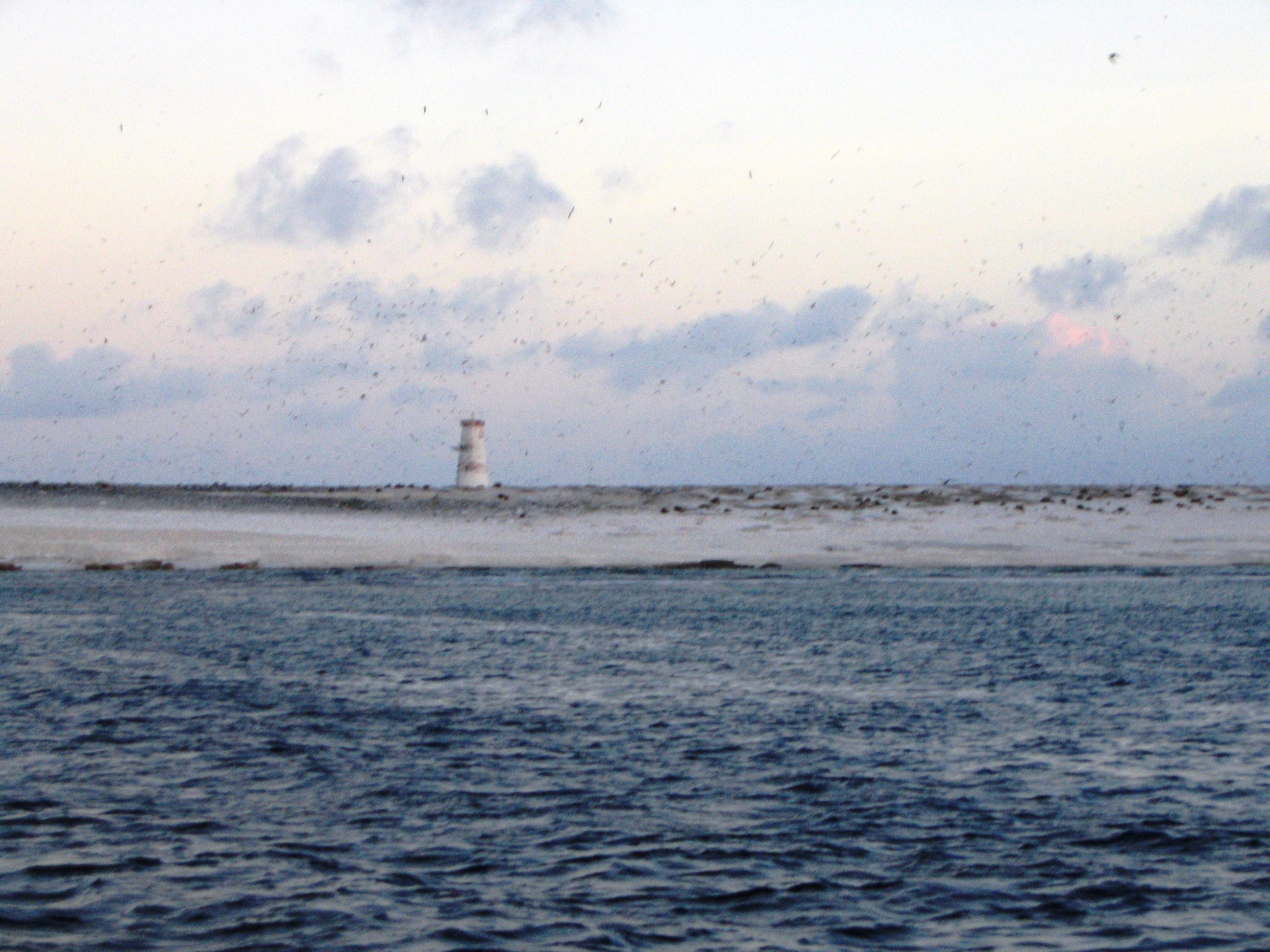 Coast of Jarvis Island (Pacific Ocean) with daylight beacon in background